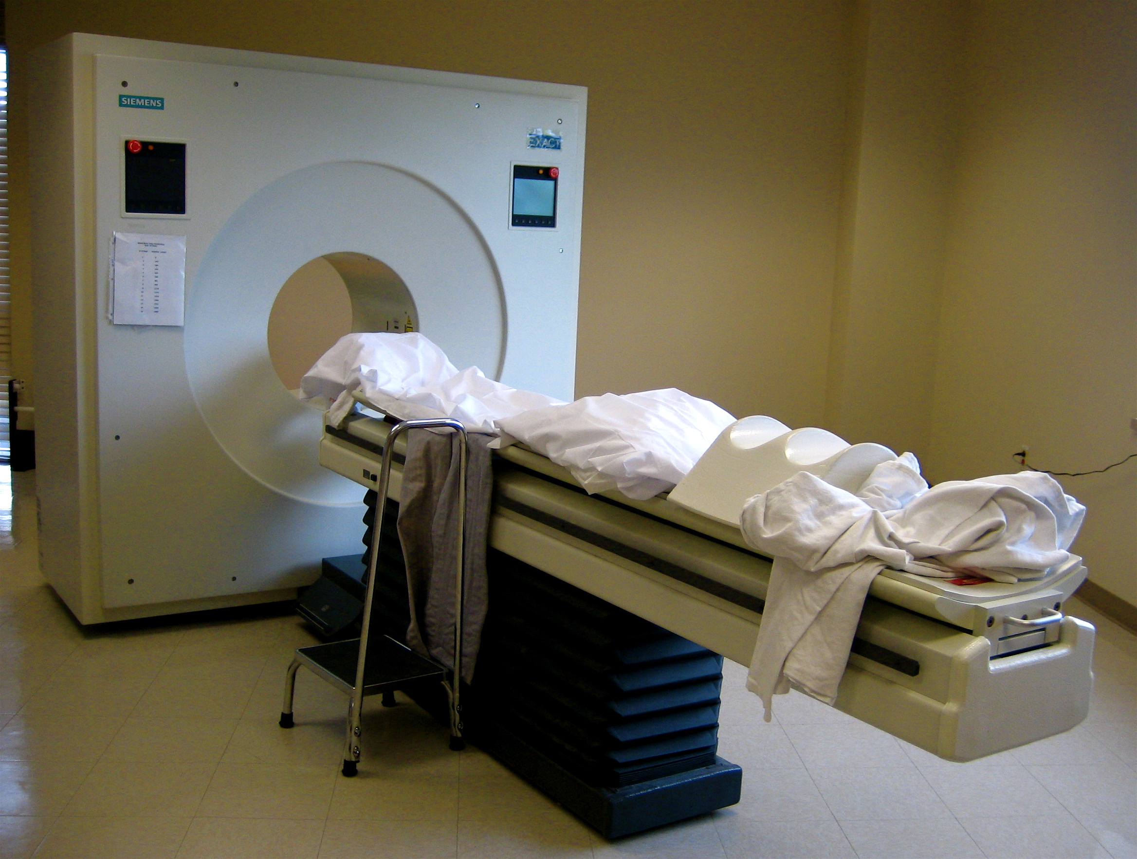 This is a PET scanner. A PET scan is a diagnostic procedure—a way to see inside the body without going inside. PET stands for Positron Emission Tomagraphy. The experience is not unpleasant, just lengthy. You don't exercise for a few days before, and you don't eat or drink for a few hours before. Then a radioactive substance is added to glucose or water and administered intravenously. (The techs flee the room to protect themselves, which is understandable but slightly unnerving.) Then the liquid travels thoughout the body. I couldn’t feel any sensation of this, and in fact, I just sat around in a comfy recliner and read for an hour. Then I lay on a table and got wrapped lightly in some material with marks on it. I lay still for about an hour while the table slowly slides through the scanner. Unlike the CAT scan and the MRI, there is no sound. The procedure is silent. The radioactivity emits positrons, which the scanner reads. Apparently, different types of tissues accumulate different amounts of radioactivity. Tissues that accumulate more of the material glow brighter. The machine records all of this, and then a specialist reads and interprets what shows up. Next week I learn the results of all this technology. These tests help explain the skyrocketing costs of medicine. However, they sure beat cutting someone open to peer inside.